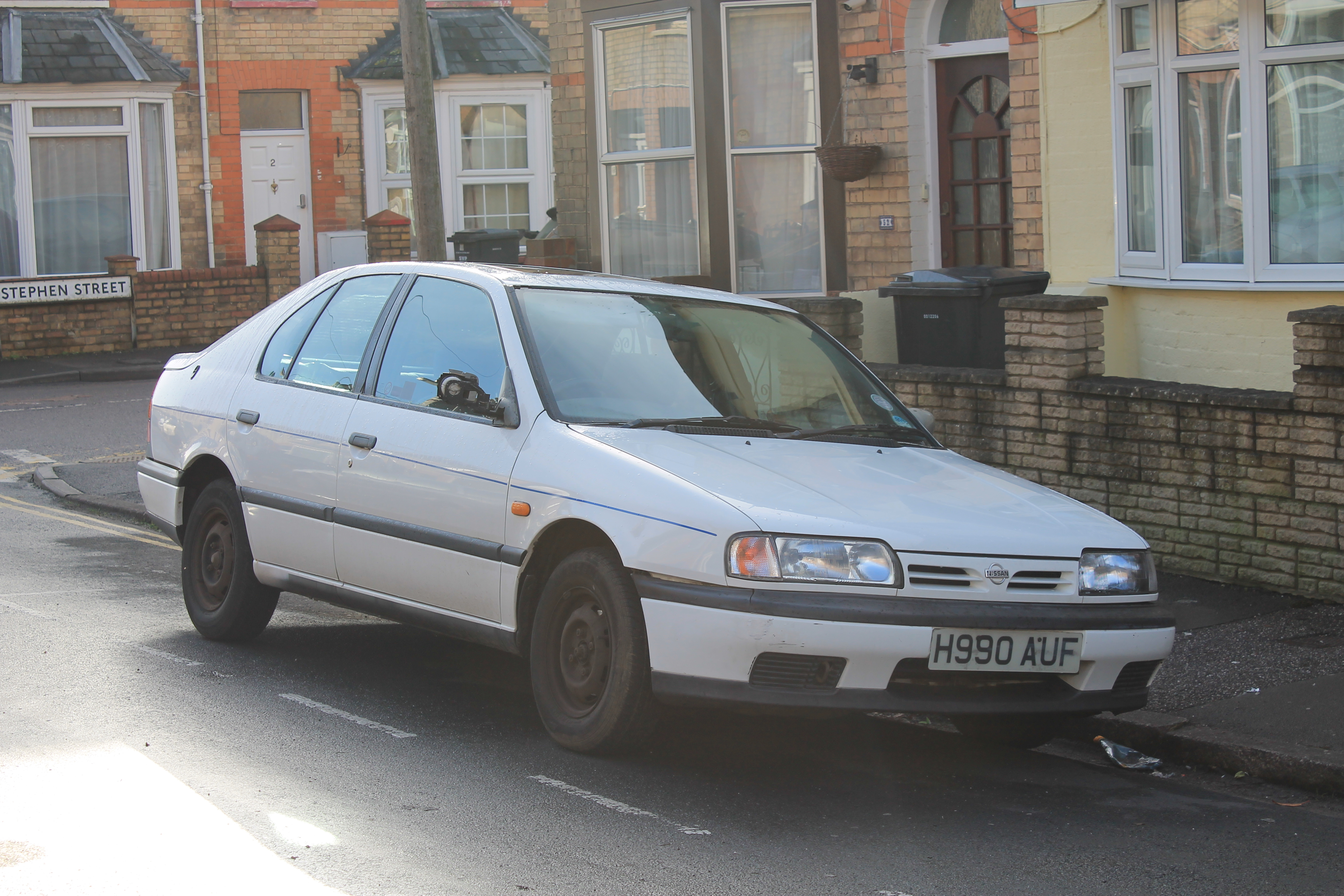 Always on the lookout for H reg Primeras, although most of the first generation are worthy of a photo now in my opinion. Other than the missing wheel trims, it didn't look in bad shape for 24 years of age, although I think that may be a tidemark creeping up the sides there... Sadly not a 1990 car like my last H reg Primera, but still far earlier than most. Plates for West Hova Nissan. The sun at this time of year makes photography so hard! Registration number: H990 AUF ✔ Taxed Tax due: 01 February 2016 ✔ MOT Expires: 25 February 2015 Vehicle make NISSAN Date of first registration 18 February 1991 Year of manufacture 1991